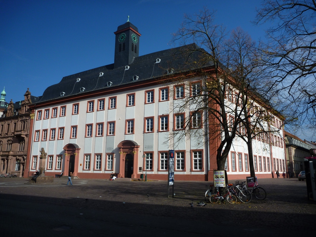 Heidelberg Old University building, by architect Johann Adam Breunig.